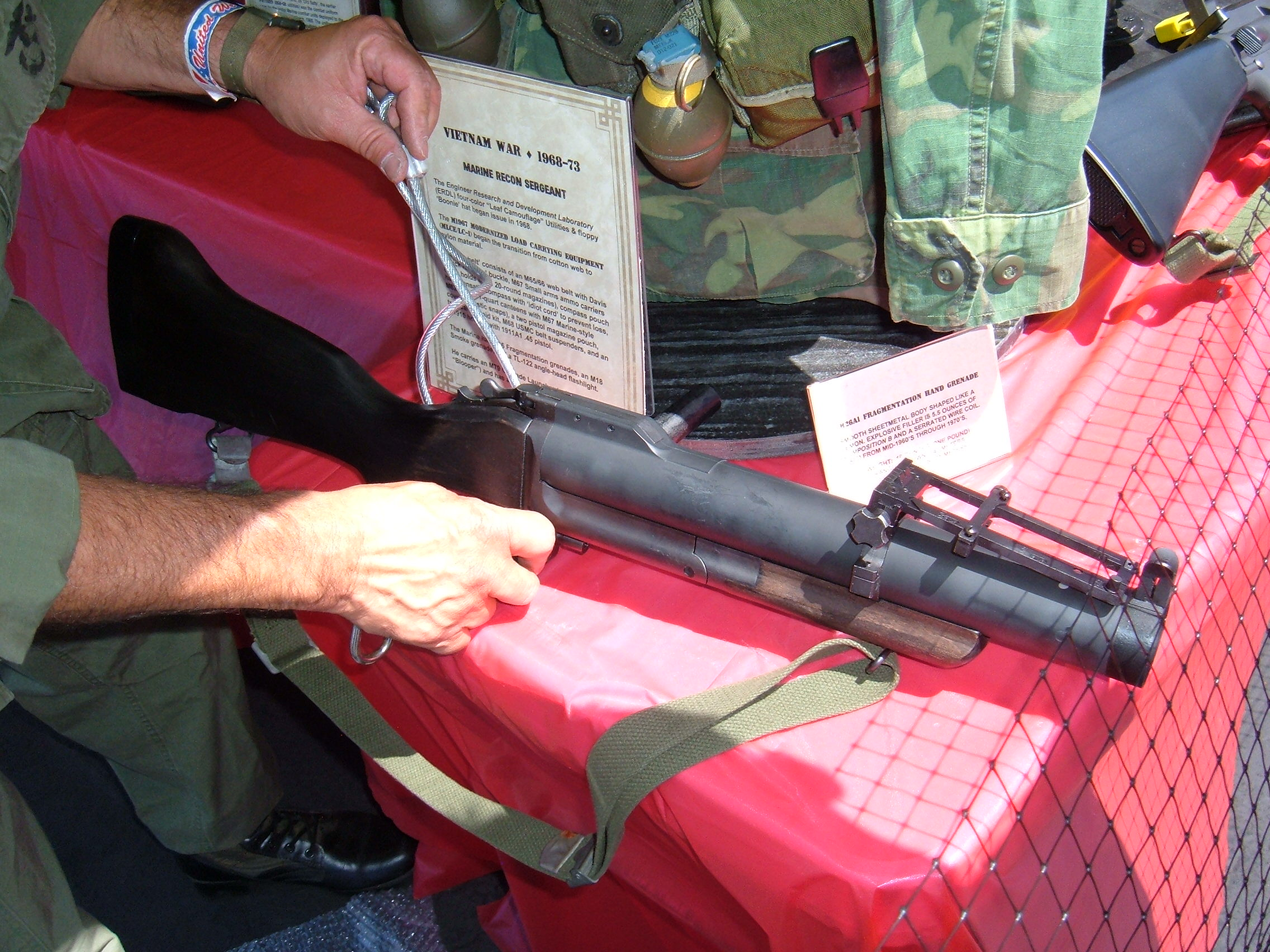 M79 being set up for display at the Wings over Wine Country 2007 air show at the Charles M. Schulz - Sonoma County Airport in Sonoma County, California.